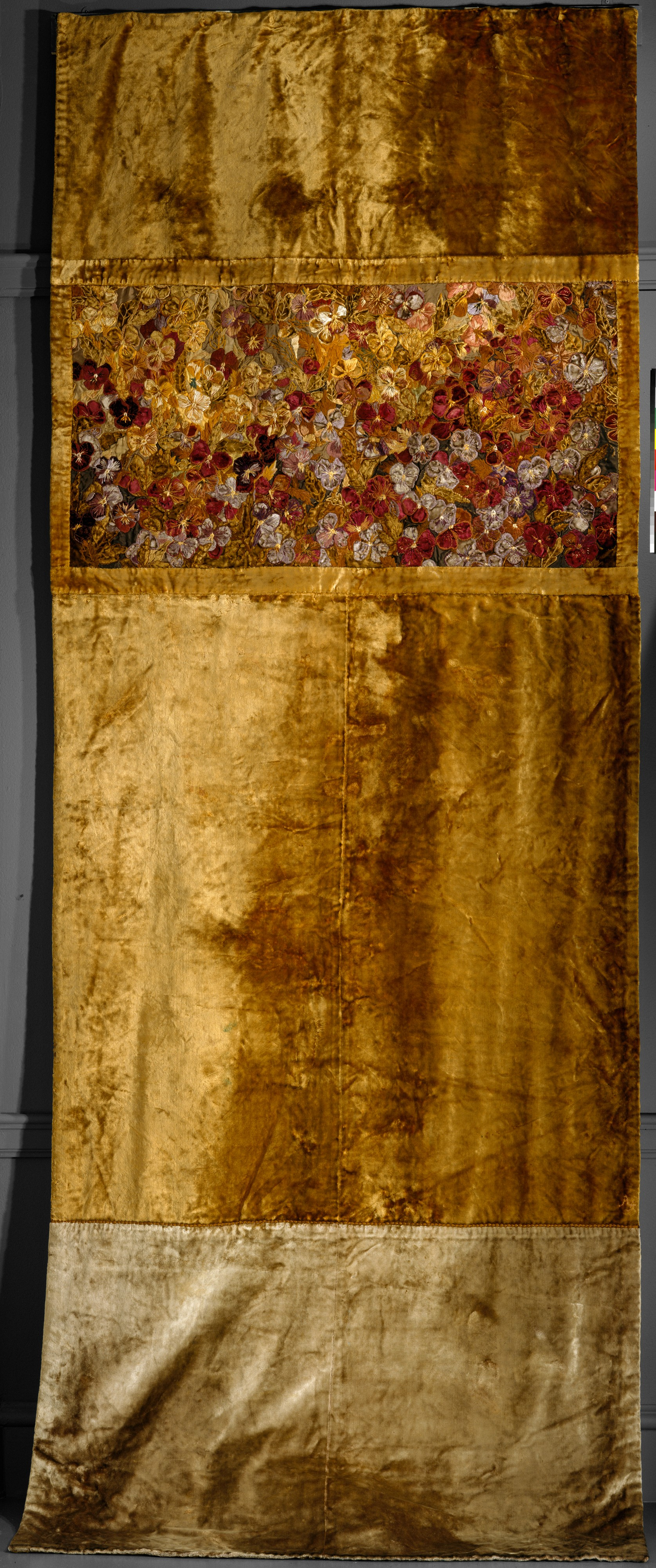 American; Portiere; Textiles